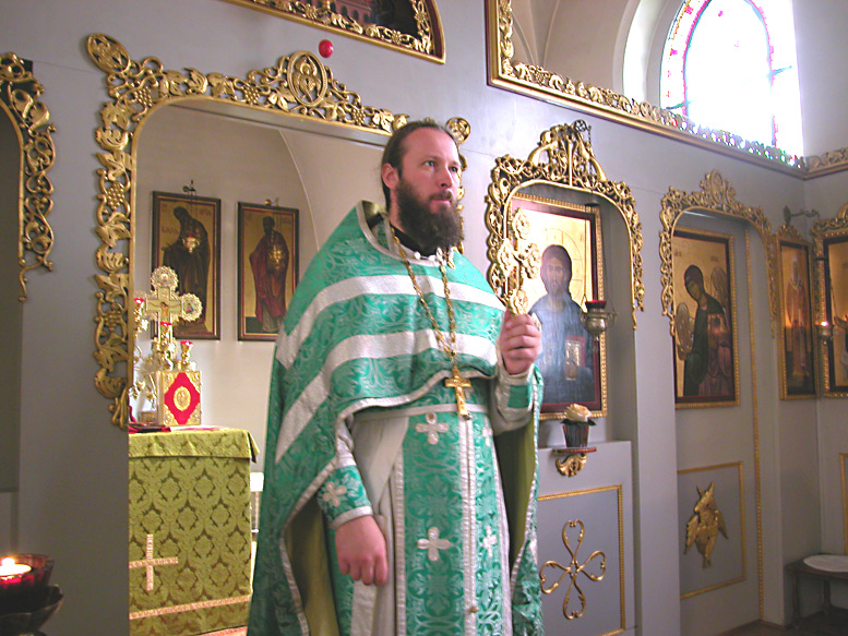 Priest giving the Dismissal with blessing cross at the conclusion of the Divine Liturgy. Holy Protection Church, Düsseldorf.